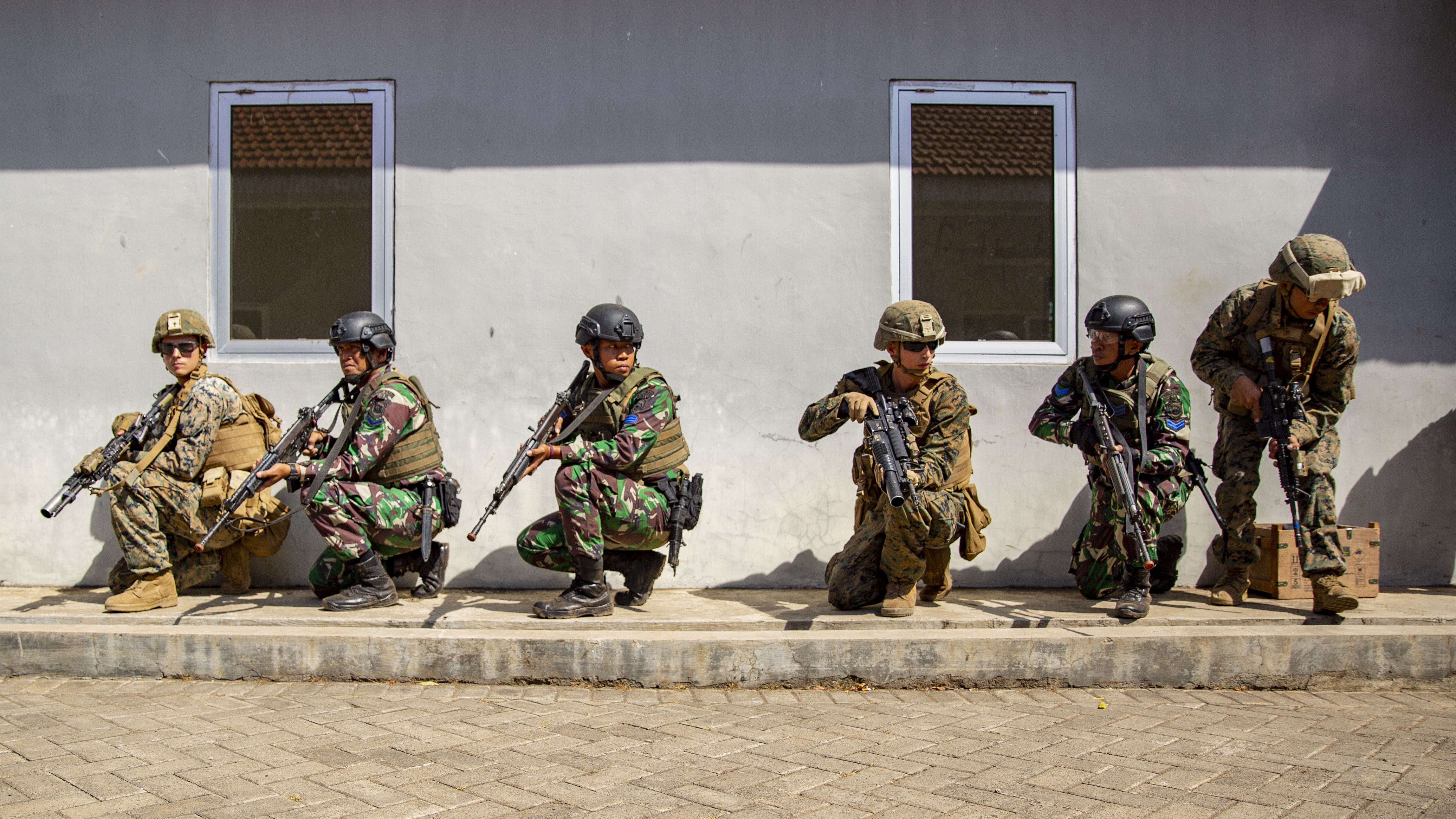 U.S. Marines with Alpha Company, 1st Battalion, 3rd Marine Regiment conduct MOUT training with Indonesian Marines during the Korps Marinir (KORMAR) Platoon Exchange 2019 program in Surabaya, Indonesia, August 9, 2019. The KORMAR platoon exchange program between Indonesia and the U.S. involves each country sending a platoon of Marines to live and train together at the other's military base. This program enhances the capability of both services and displays their continued commitment to share information and increase the ability to respond to crisis together. (U.S. Marine corps photo by Cpl. Eric Tso)